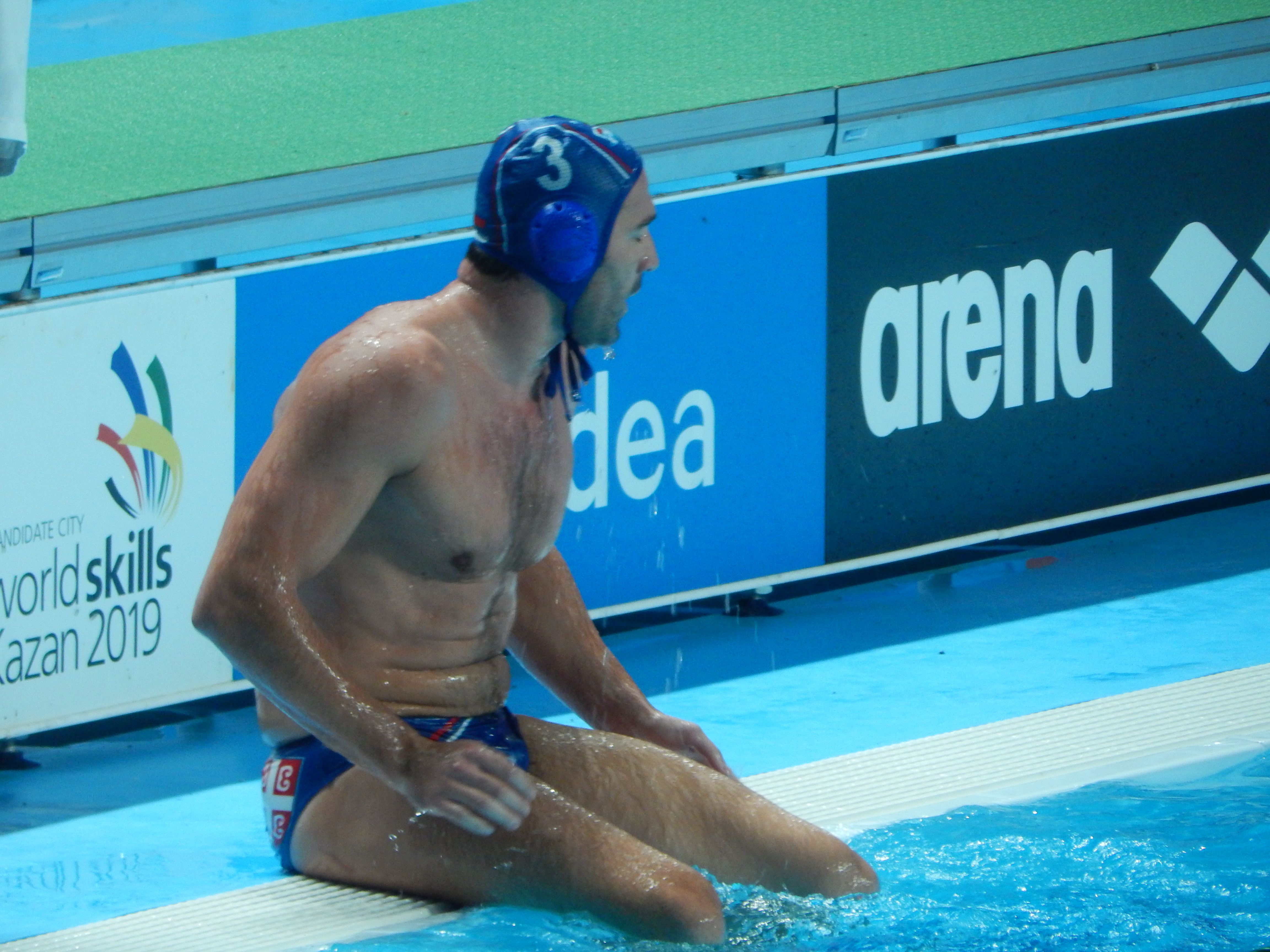 The gold medal match between Team Serbia and Team Croatia and the victory ceremony. All photos have been taken from the photographers sector. I was simply usual visitor but my ticket was to non-existent seats, therefore I was moved to that sector. All good photos I upload to WikiCommons for free use.